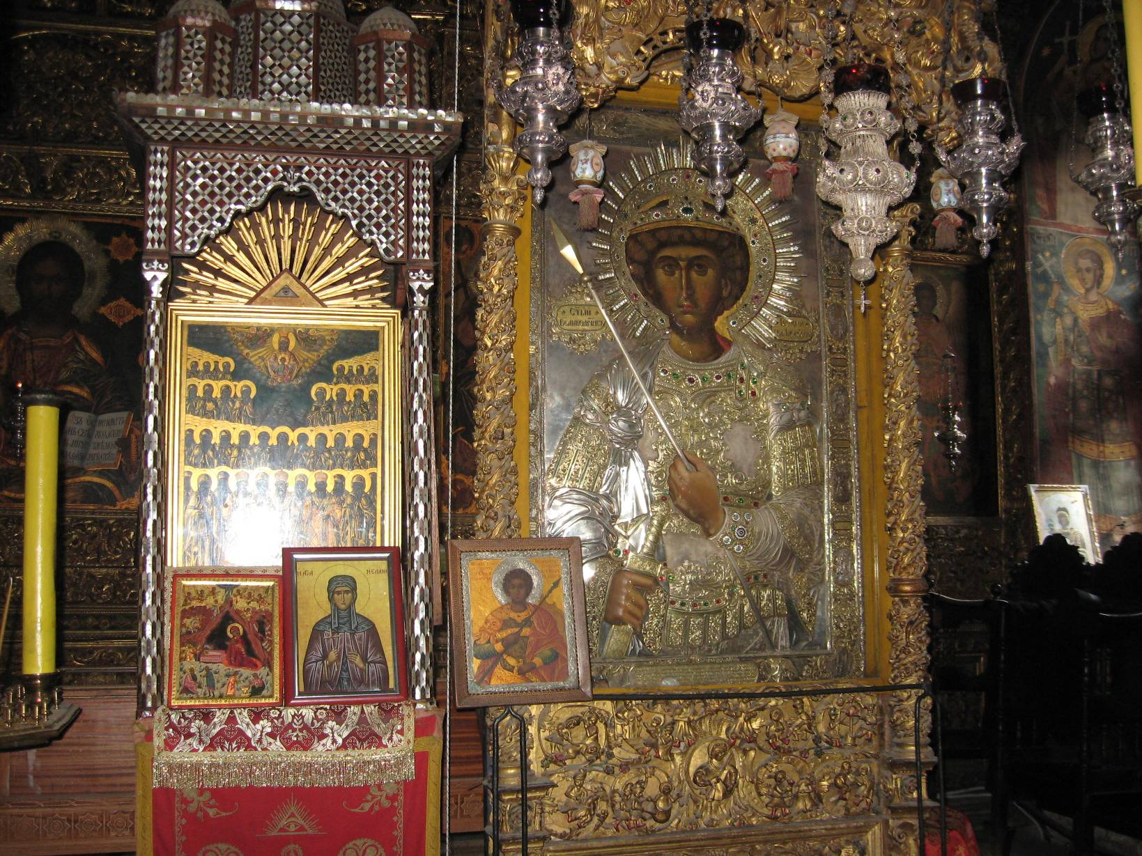 interior view of the Zographou Monastery, Mt Athos